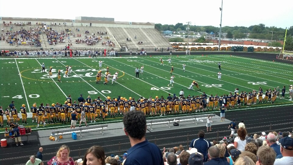 Home of the Parma High Schools and St. Ignatius